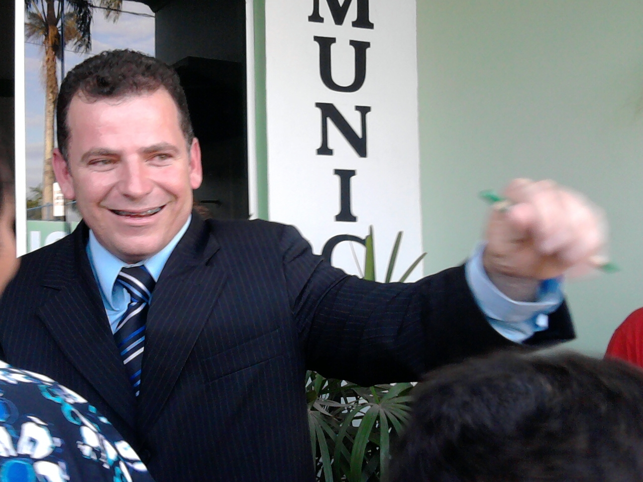 Anderson Pedroni Gorza, interim mayor of Fundão (Brazil), in front of Town Hall thereupon his inauguration.